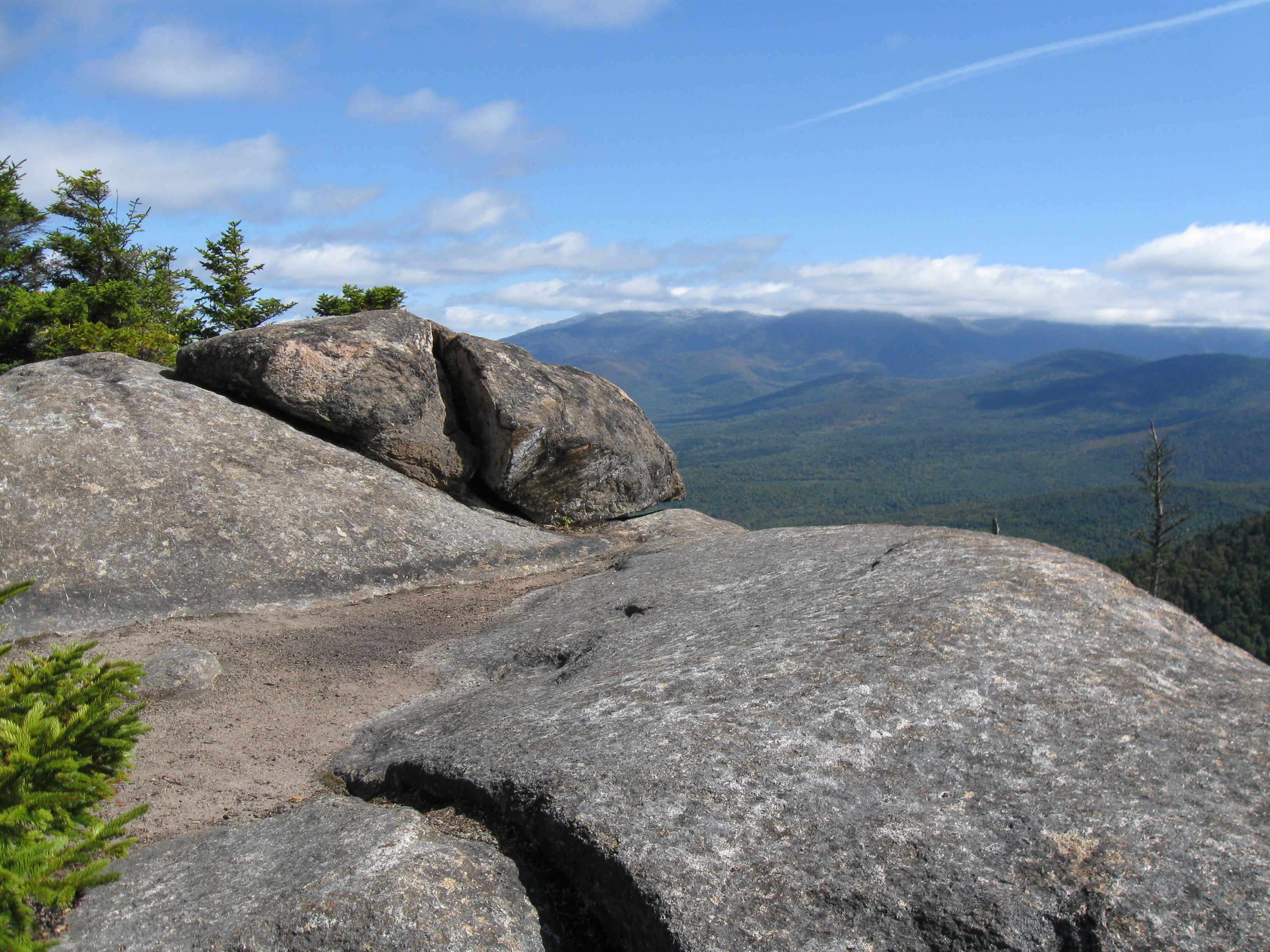 View of rocky summit of Owl's Head (Carroll, New Hampshire), September 2009.